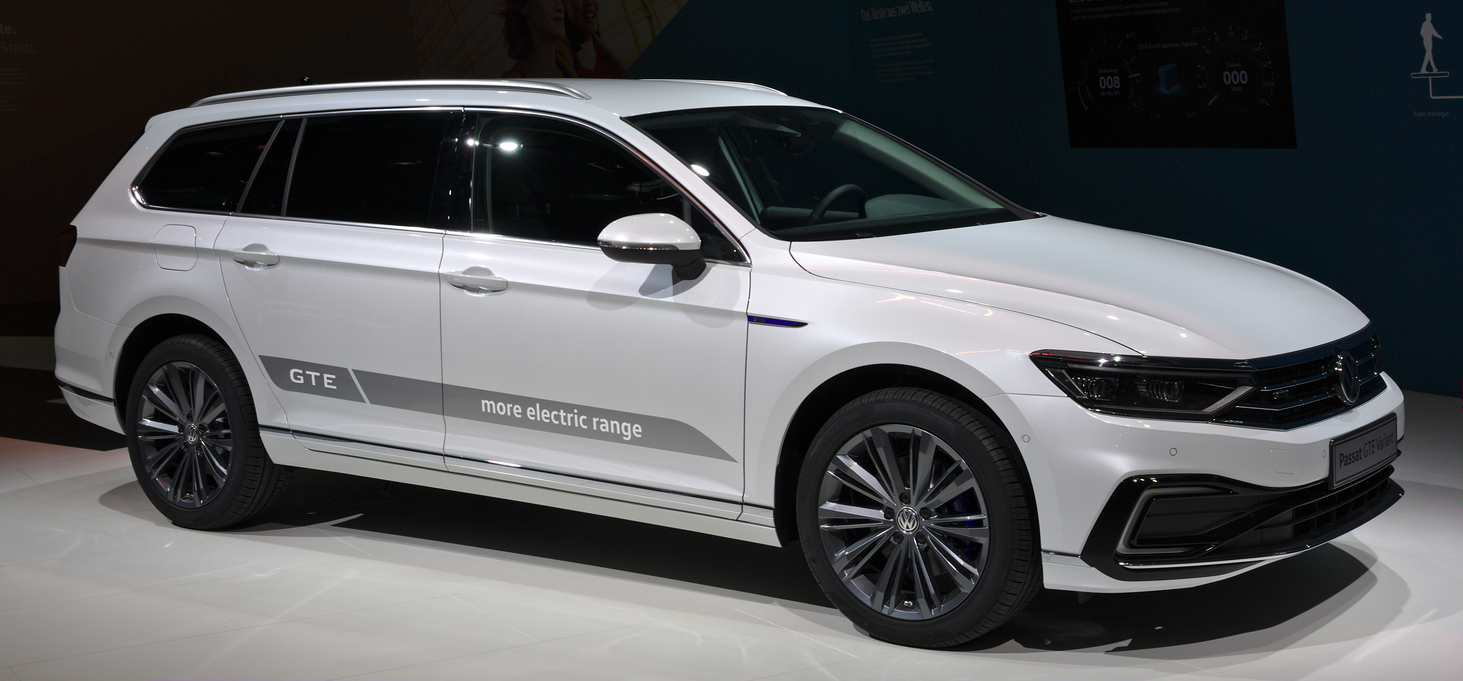 VW Passat Variant GTE at Geneva Motor Show 2019